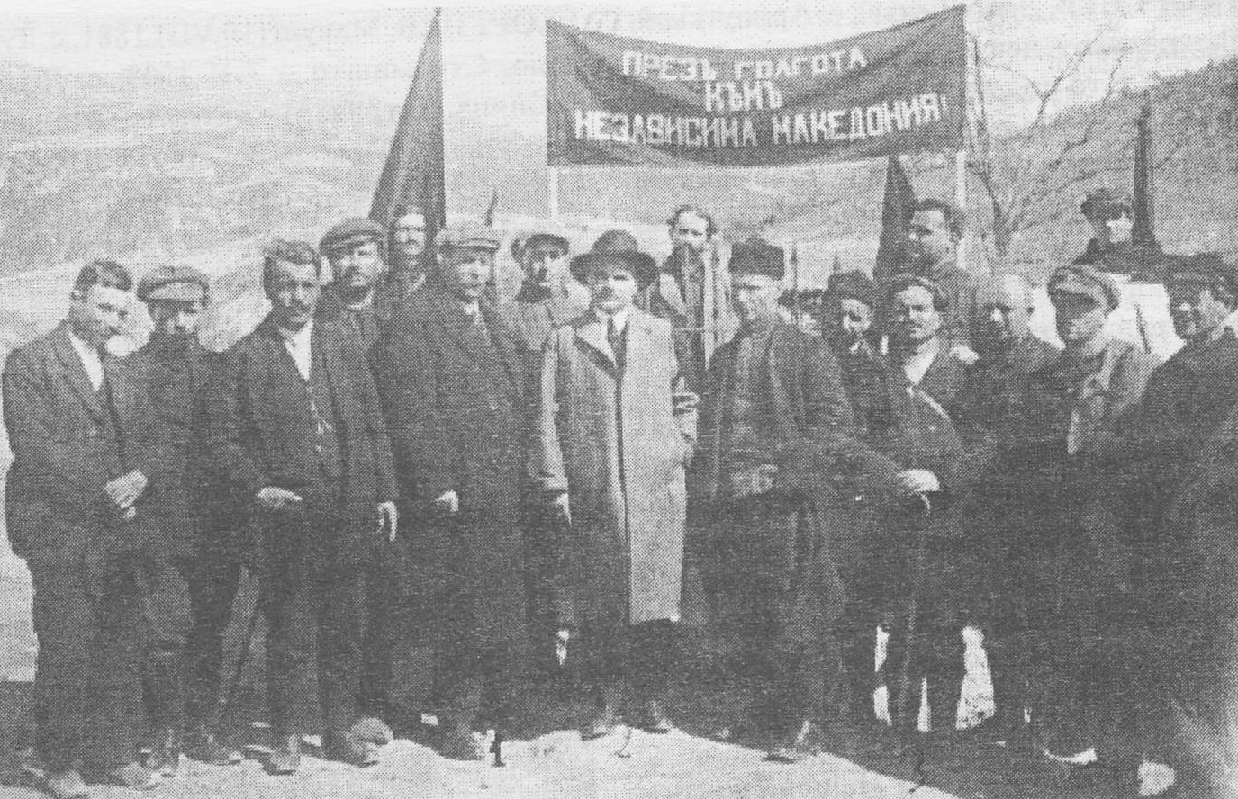 Tomb of Todor Alexandrov, in front - Georgi Vyndov